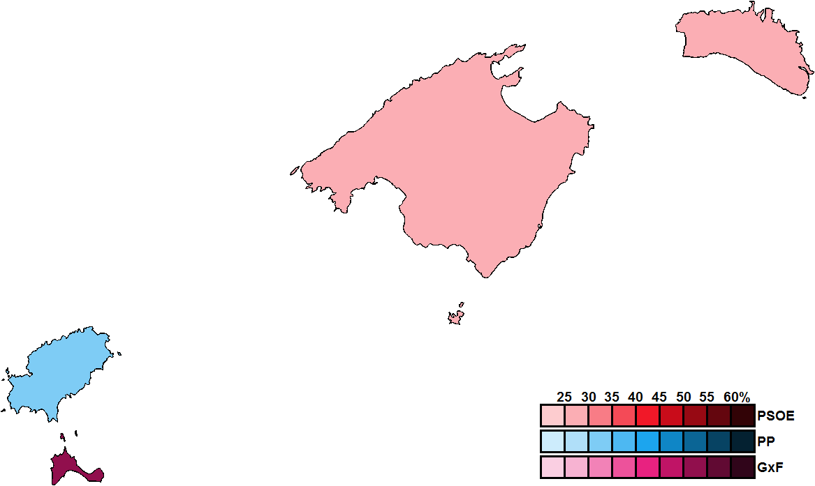 District results for the 2019 Balearic regional election.